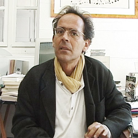 Image by David Barison/Daniel Ross 2004, from the film The Ister